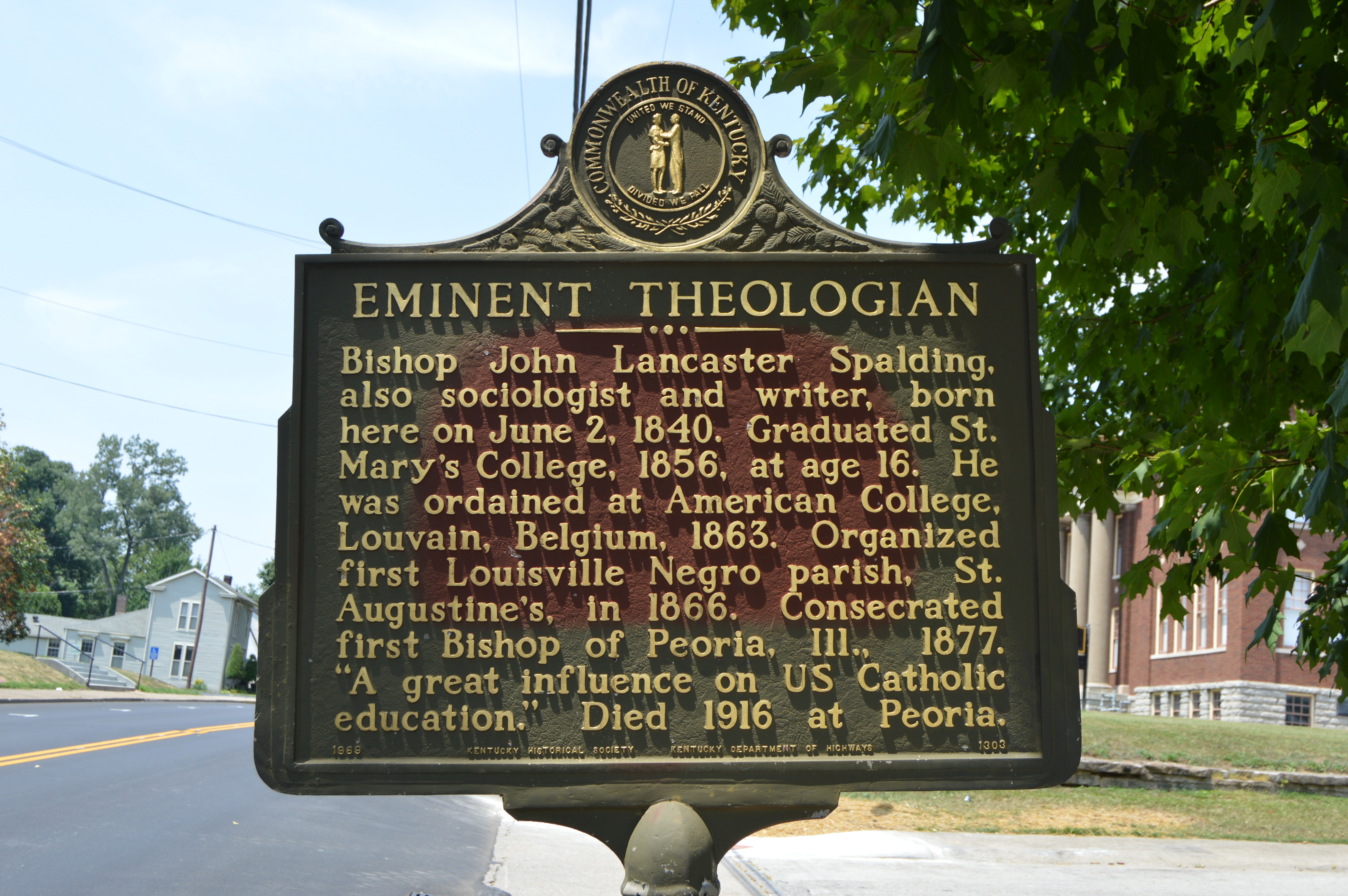 Historical marker for John Lancaster Spalding in front of the Marion County Courthouse, located along the eastern side of N. Spalding Avenue (Kentucky Route 55) in Lebanon, Kentucky, United States.